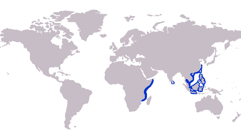 Distribution of the Oriental trumpeter whiting, Sillago aeolus using map based on GDFL image